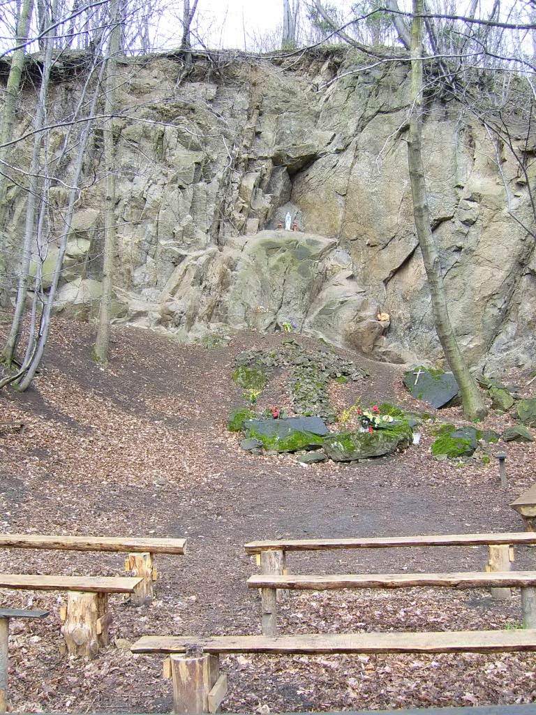 Abandoned teschenite quarry in Zamarski-Rudów village (so-called quarry with shrine), Poland.